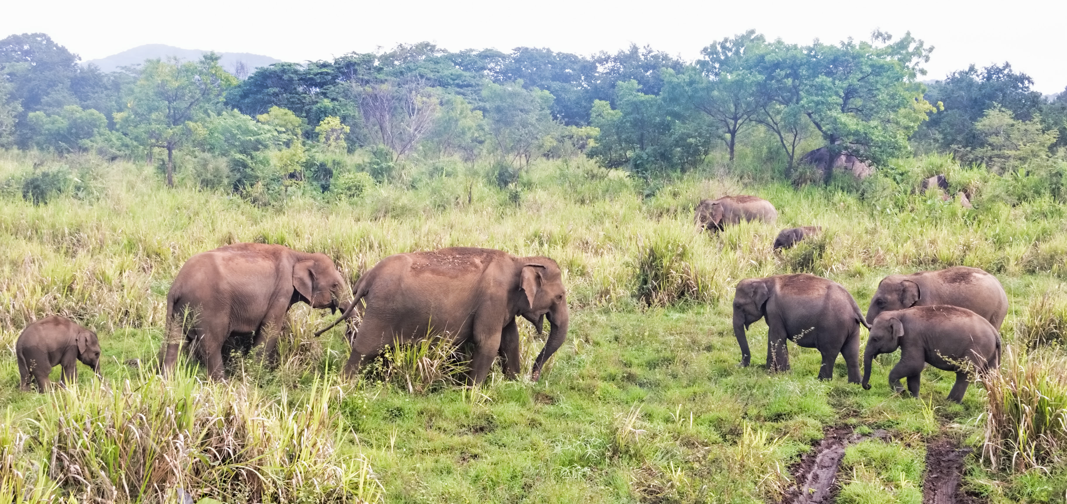 Elephants in Hurulu Eco Park. The Sri Lankan elephant (Elephas maximus maximus) is the largest of the three subspecies of Asian elephants but still smaller than the African elephant. Only 7% of males bear tusks. The International Union for Conservation of Nature (IUCN) lists the Sri Lankan elephant as endangered, primarily due to habitat loss. Hurulu Eco (for ecological) Park was carved out at the edge of the Hurulu Forest Reserve, a designated biosphere reserve (in 1977) representing Sri Lanka dry-zone dry evergreen forests. It is an important habitat of the Sri Lankan elephant. There are other protected areas around the reserve that provide additional range for the migratory elephants without encroaching on civilization. On Google Earth: Hurulu Eco Park 8° 7'16.41"N, 80°48'12.97"E